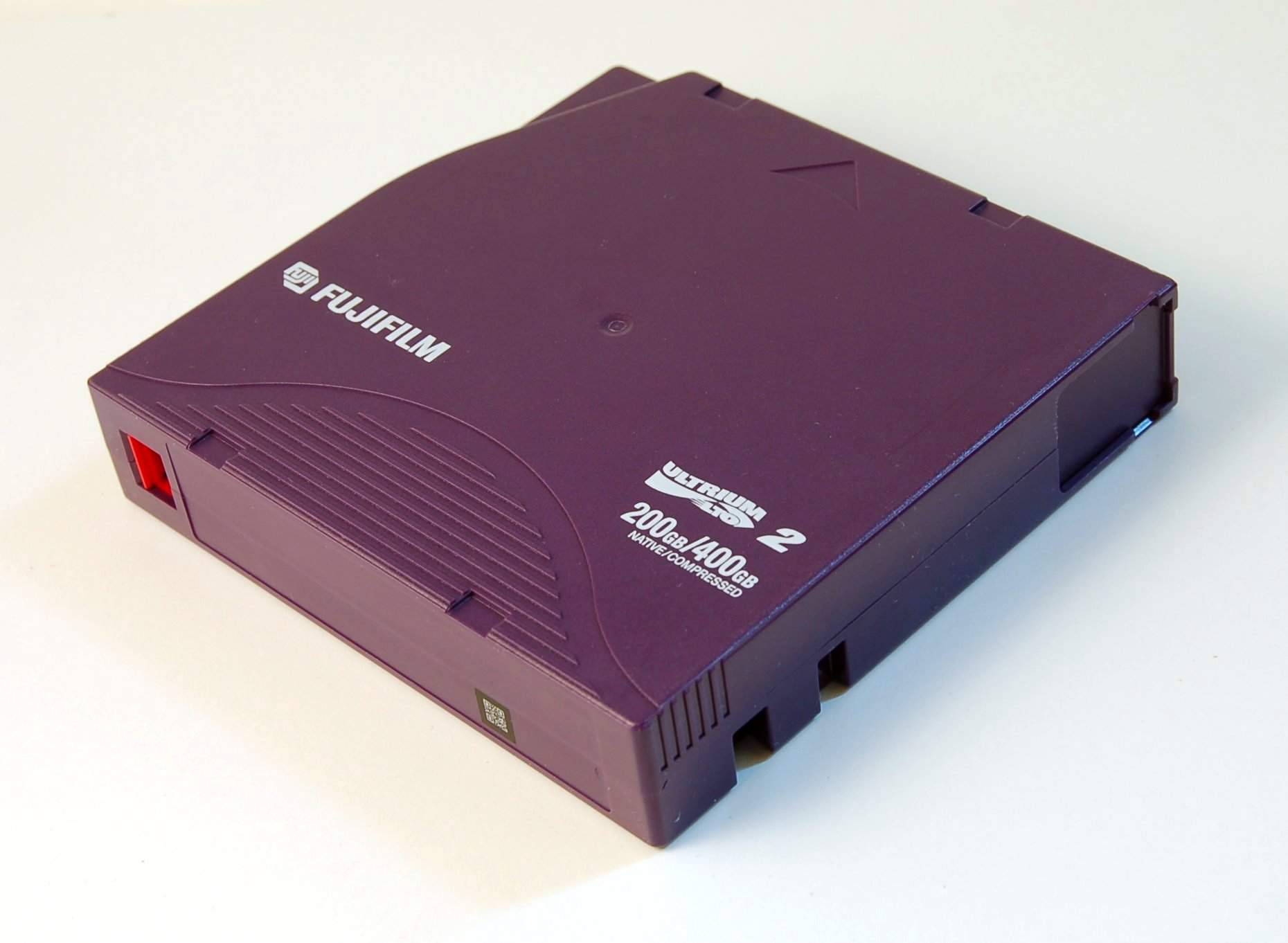 Purple LTO Ultrium 2 cartridge